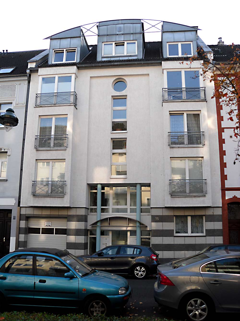 Street Western, Düsseldorf-Benrath